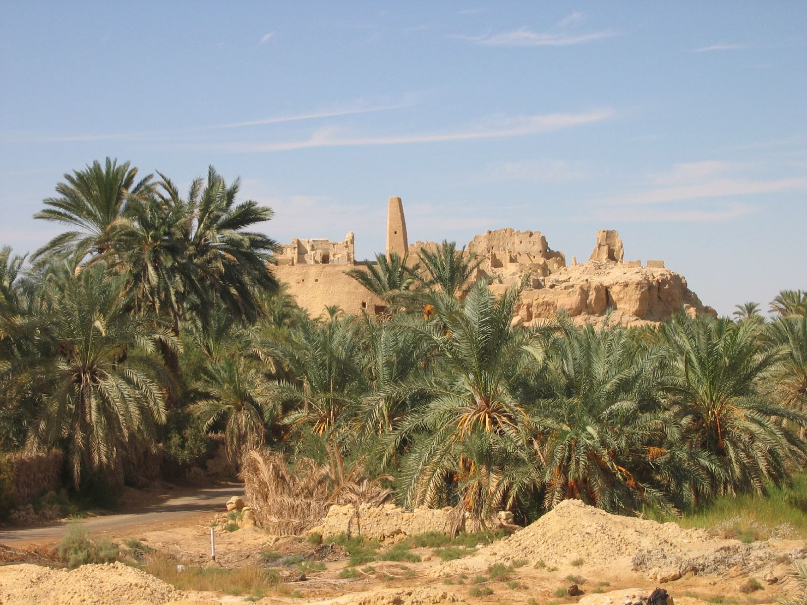 The Temple of Ammun (behind palm trees) in Aghurmi, Siwa oases, Egypt.